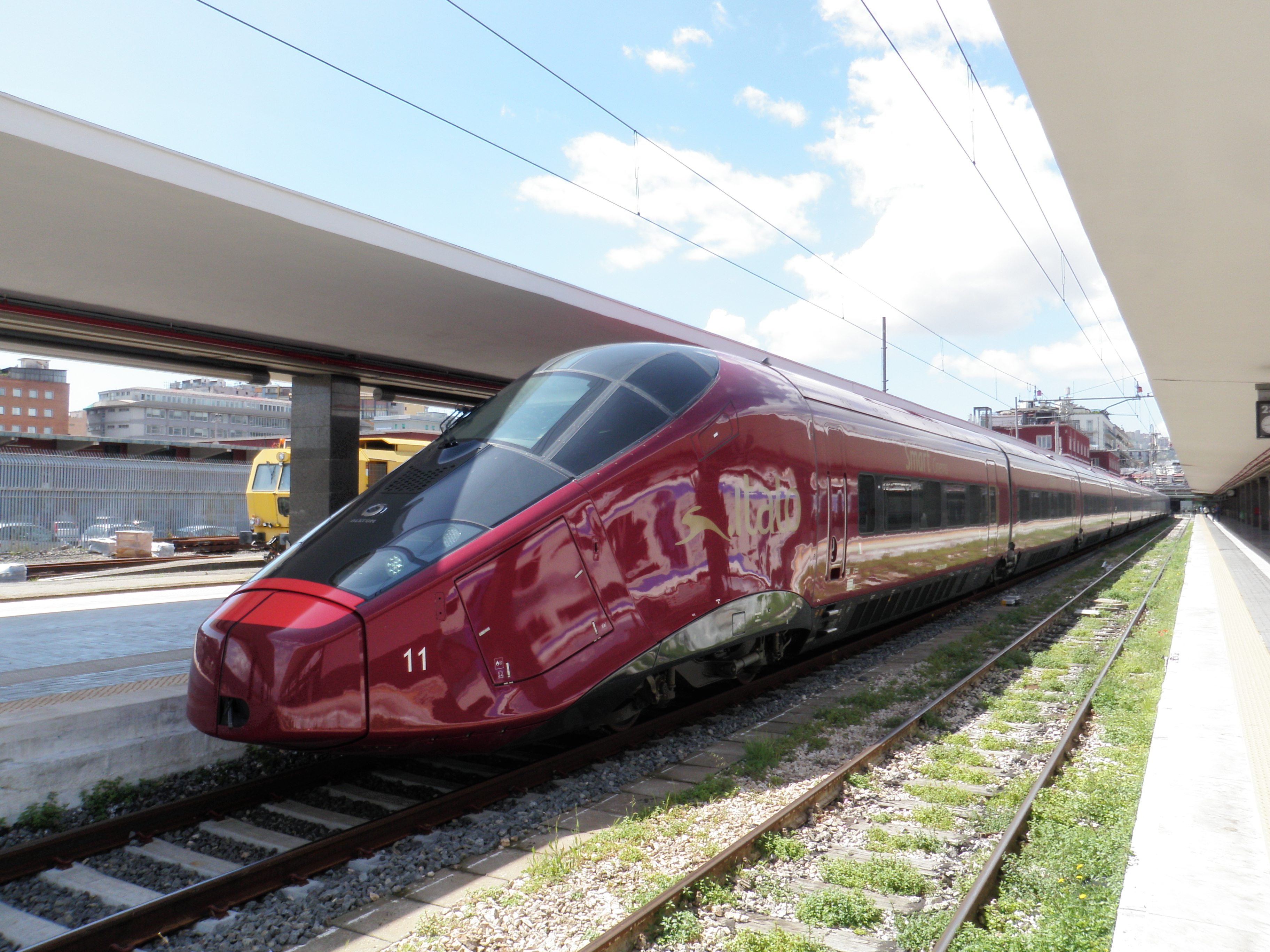 Alstom AGV .italo from NTV in Napoli Centrale railway station.